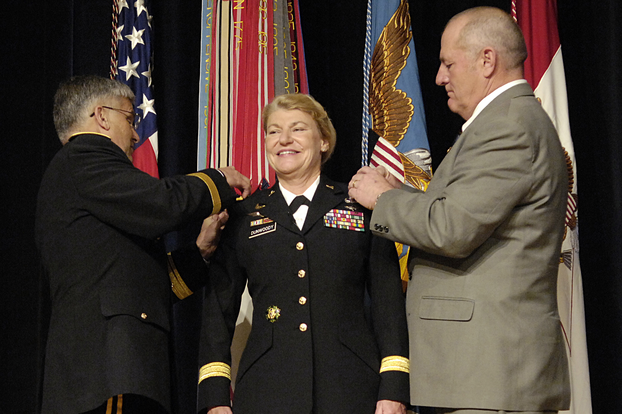 Ann Dunwoody pinned with her four stars: Army Lt. Gen. Ann E. Dunwoody smiles during her promotion to general. She was pinned by Chief of Staff of the Army General George W. Casey (left) and her husband Craig Brotchie during her ceremony November 14, 2008 at the Pentagon. General Dunwoody made history as the first four-star female officer in the U.S. military.